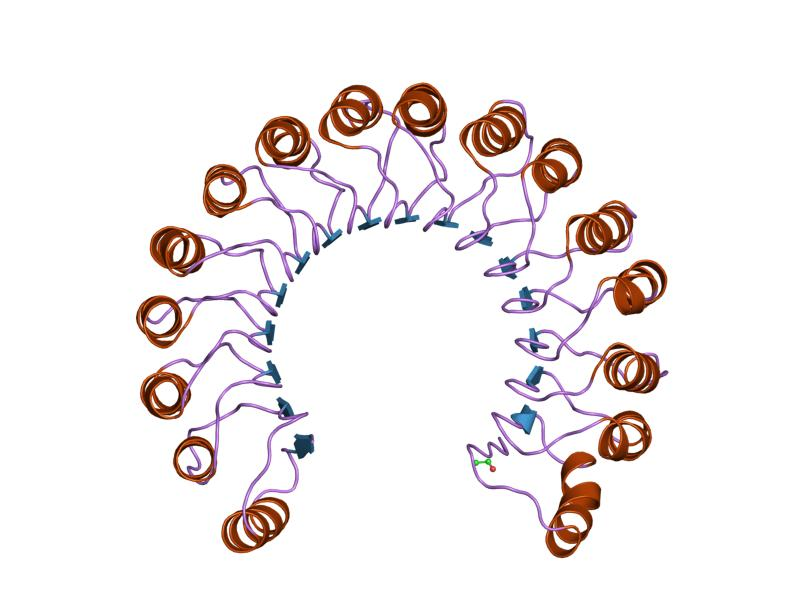 Cartoon representation of the molecular structure of protein registered with 2bnh code.